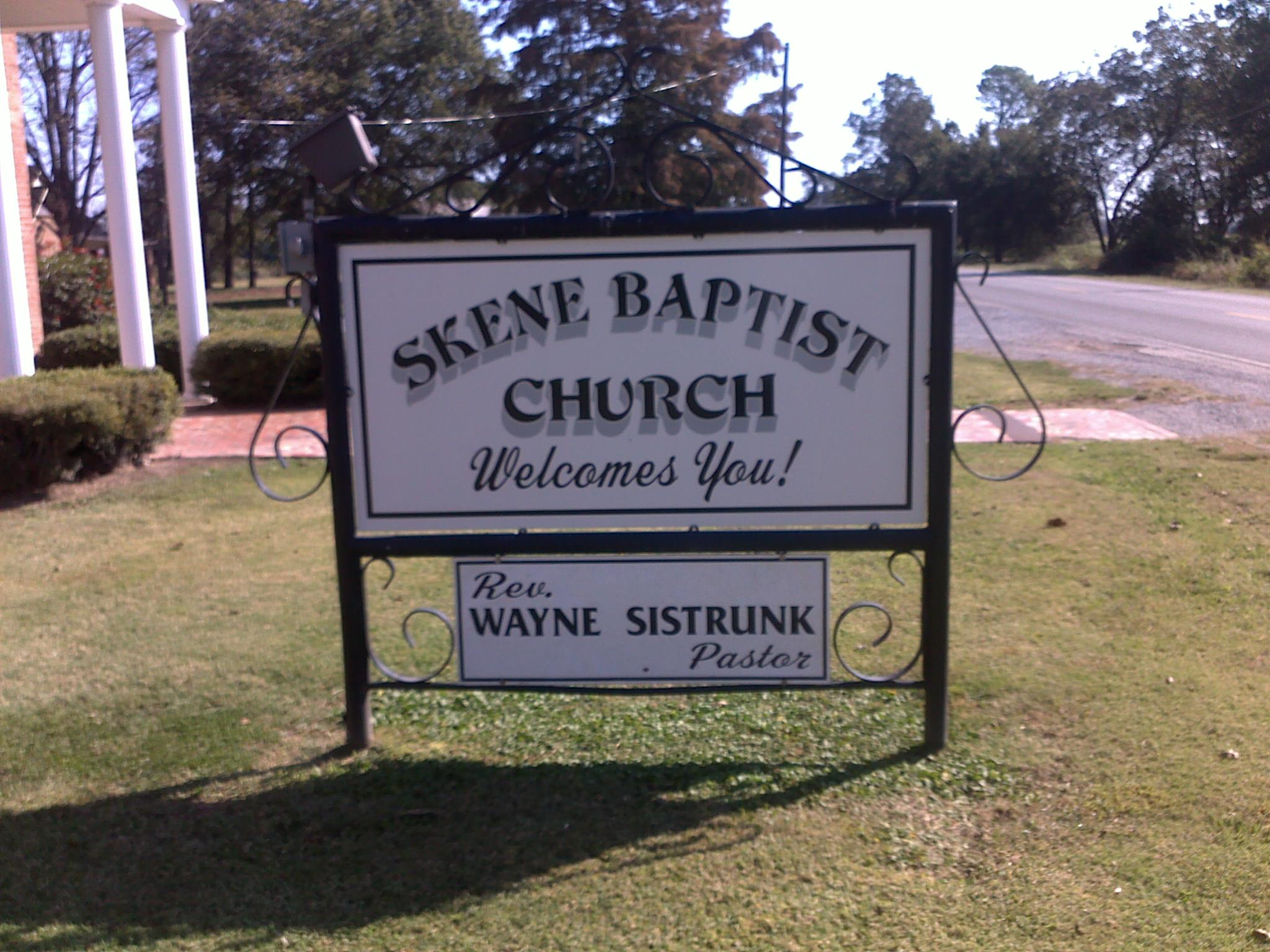 Skene Baptist Church sign located on Hwy. 446 in Skene